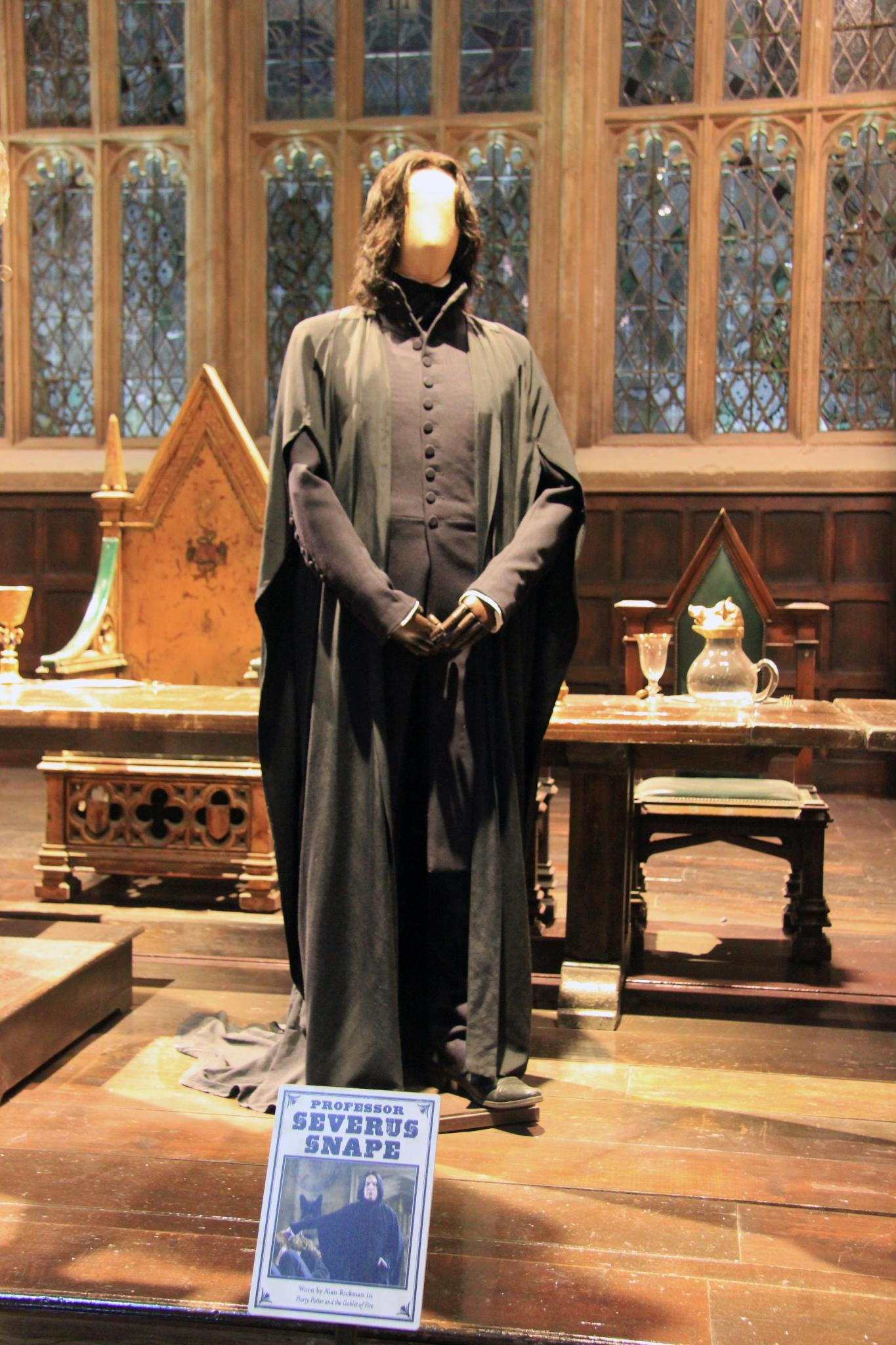 Warner Bros. Studio Tour London: The Making of Harry Potter.